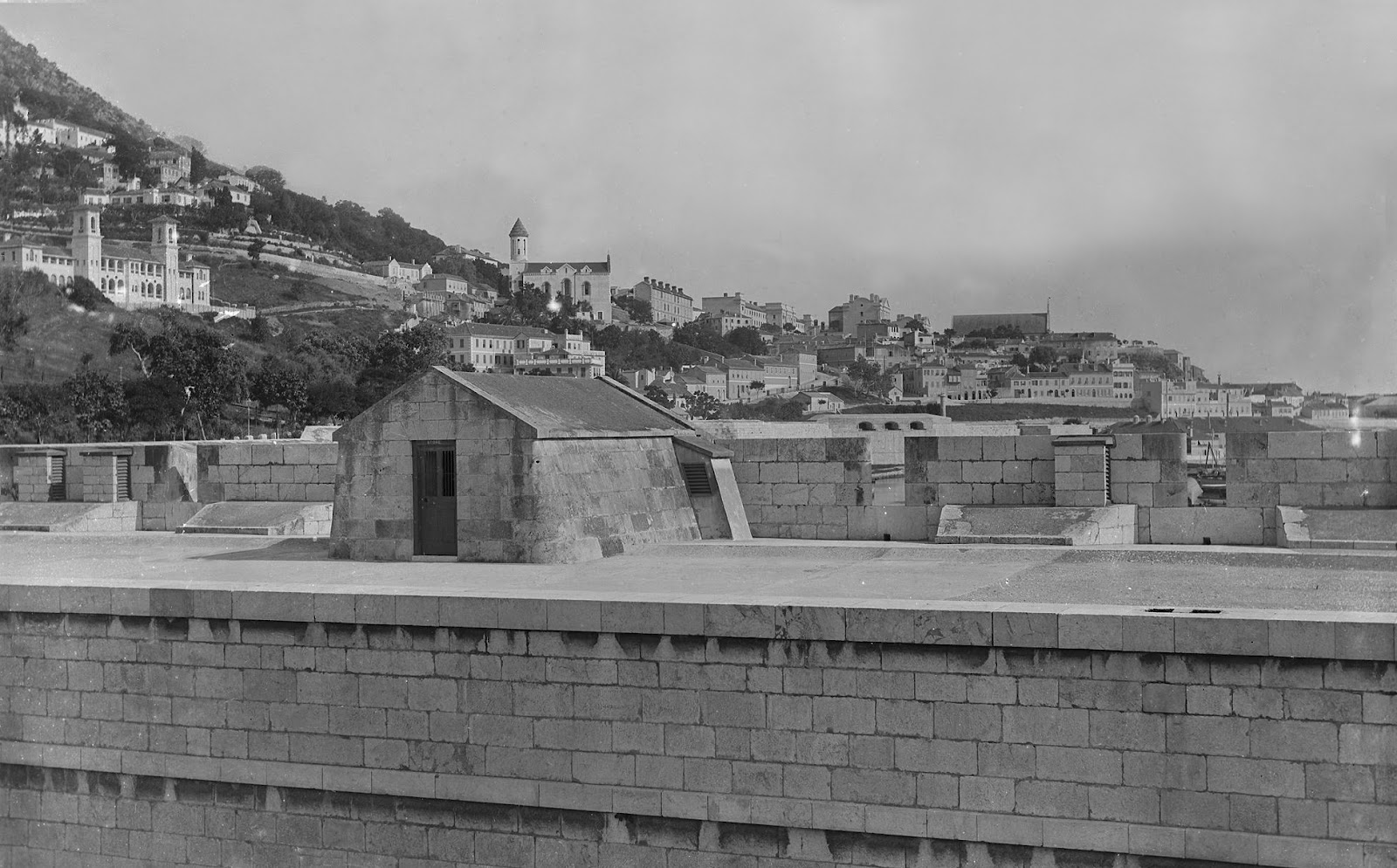 South from Jumper's Bastion. Photograph from c. 1880 byGeorge Washington Wilson (died 1893) of a place in Gibraltar - images found by Neville Chipolina